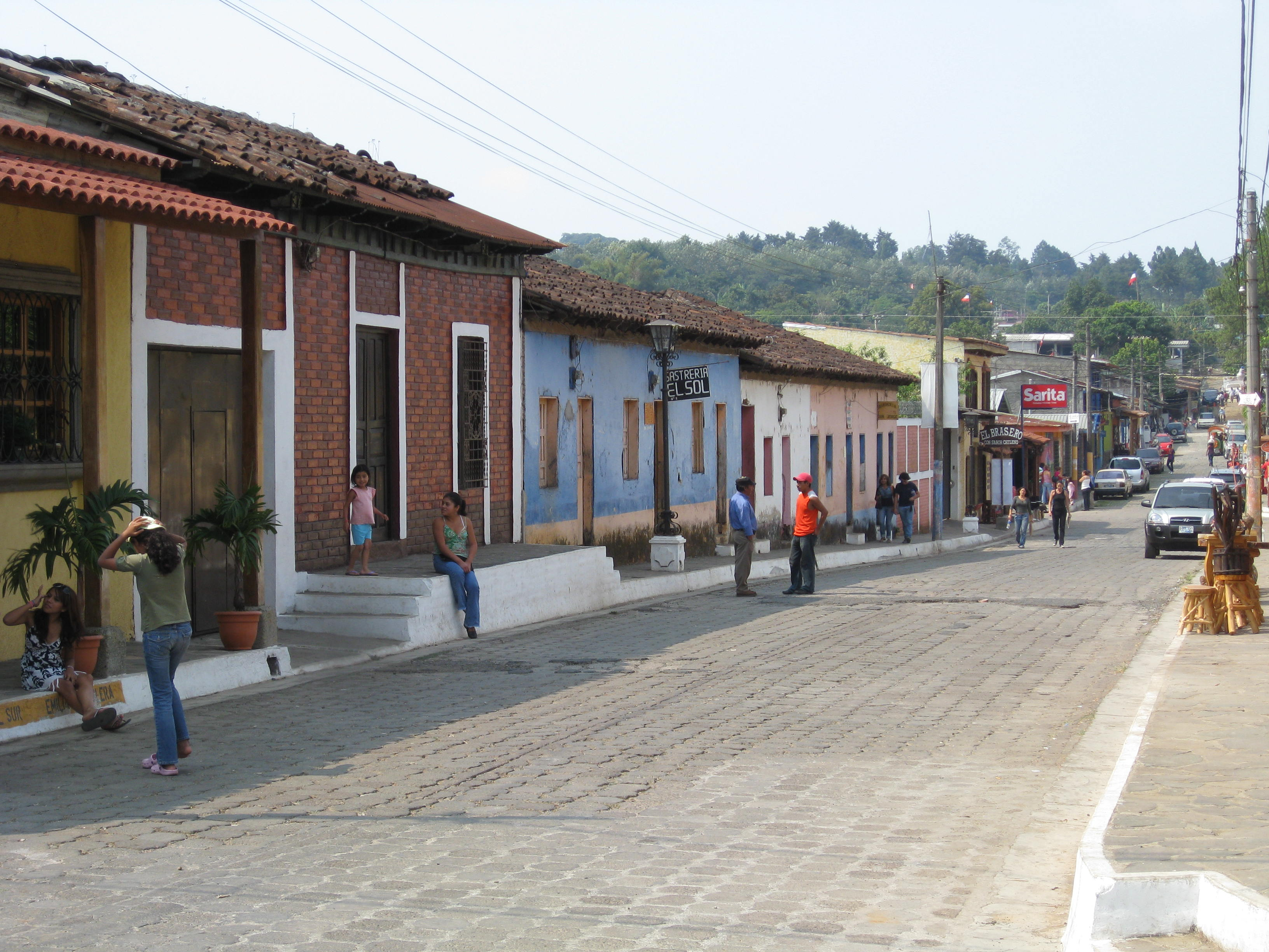 New street in ataco